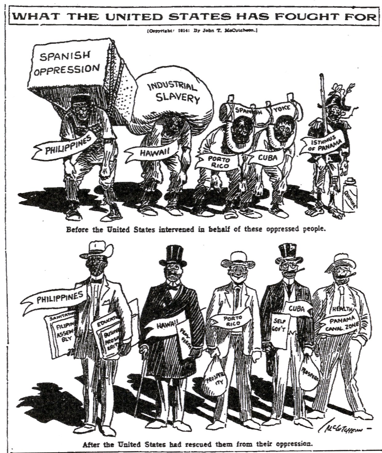 political cartoon from the Chicago Tribune from 1914, expressing how the US was presented as liberating former Spanish colonies, 15 years after the Spanish-American War. "What the United States has Fought For". Figures of men with dark complexions represent Philippines, Hawaii, "Porto Rico", Cuba, and Panama. The top panel, "Before the United States intervened in behalf of these oppressed people", shows them in rags weighed down by oppressive burdens. The bottom panel, "After the United States had rescued them from their oppression", shows them standing tall and healthy in fashionable clothes.